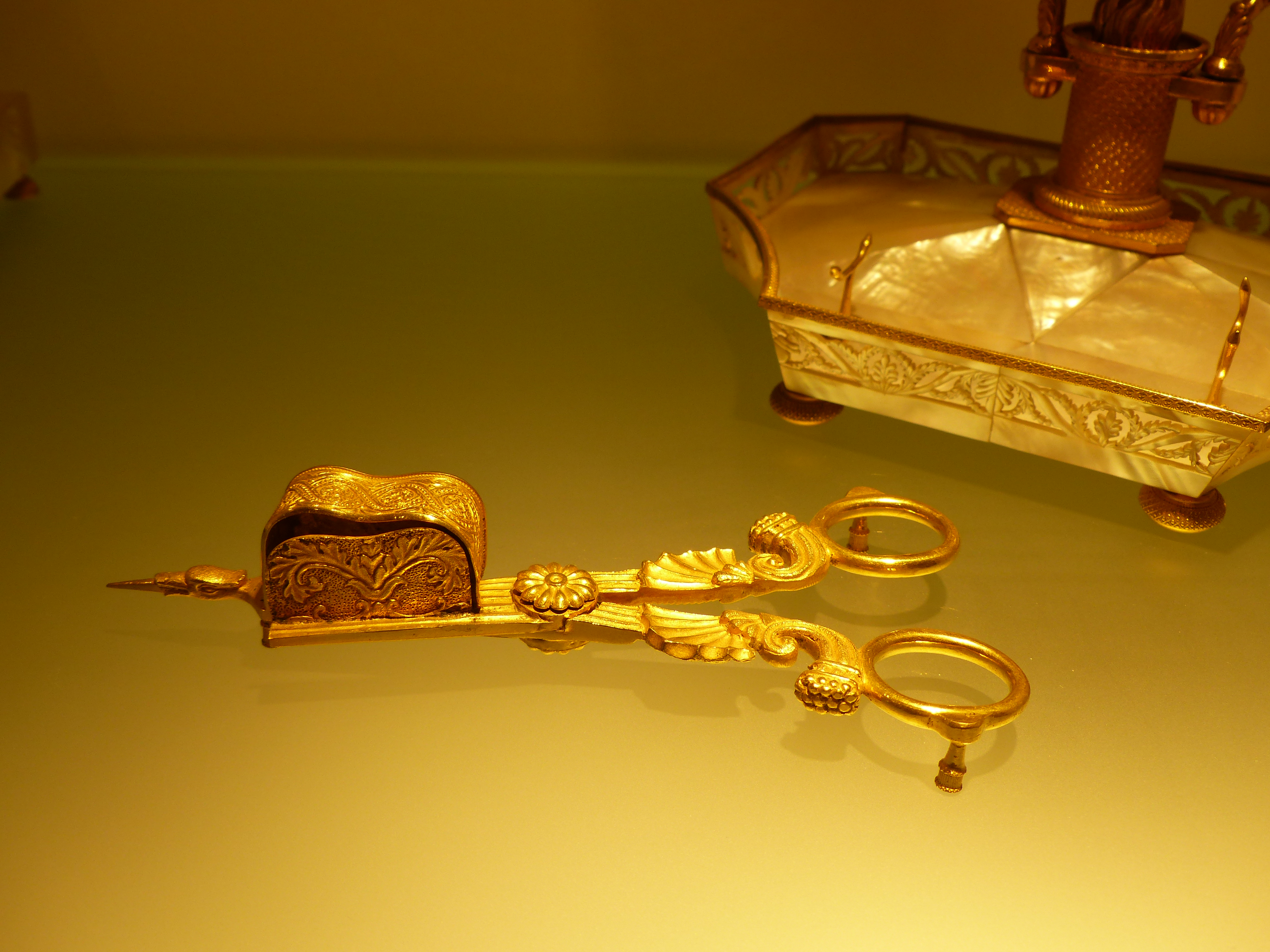 Wick-trimmer about 1825